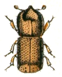 Xyleborus monographus, from Calwer's Käferbuch, Table 29, Picture 25. Taxonomy was updated to 2008, using mostly the sites Fauna Europaea and BioLib. Please contact Sarefo if the determination is wrong!